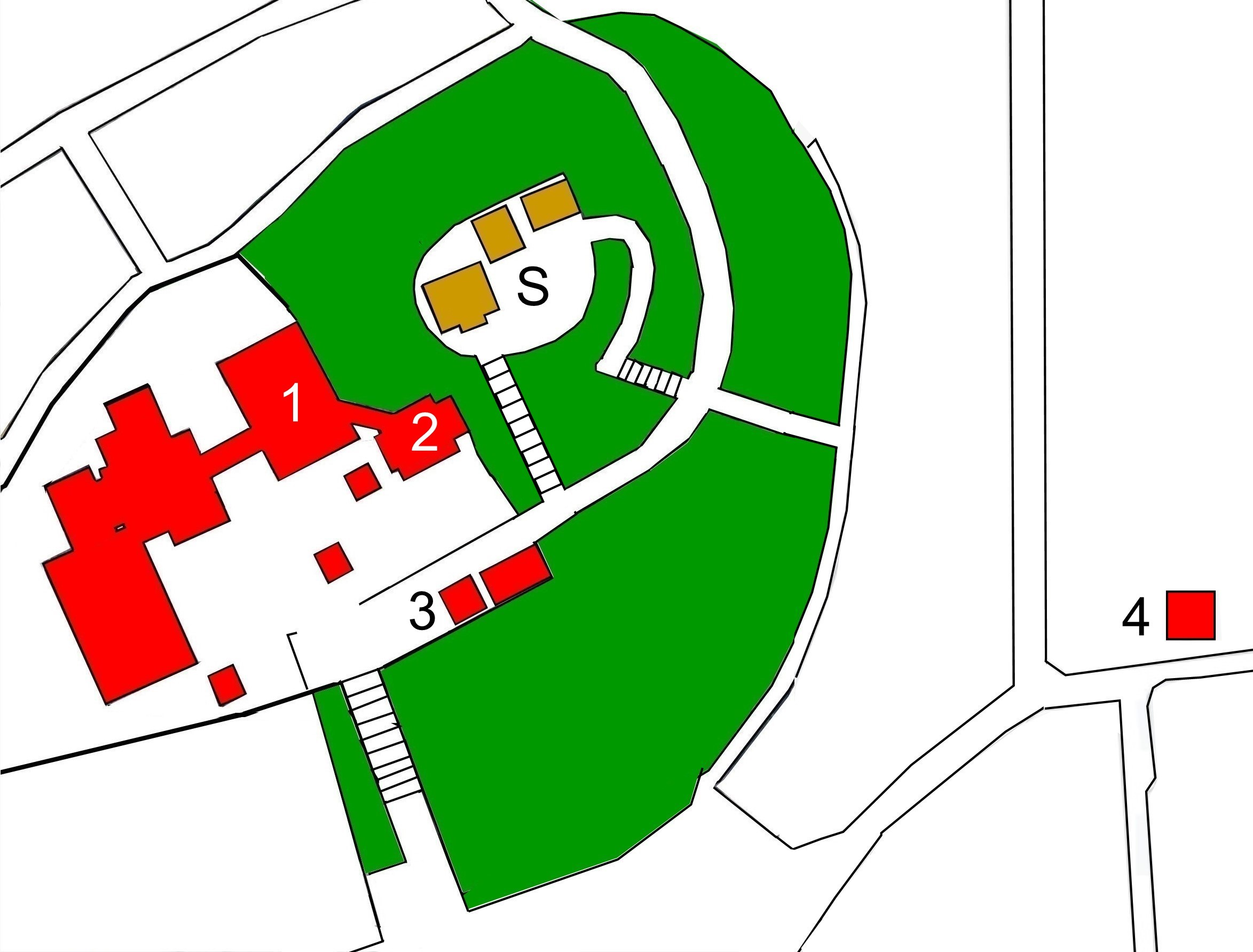 Layout of Iyo-Kokubunji , Prefecture Ehime, Japan